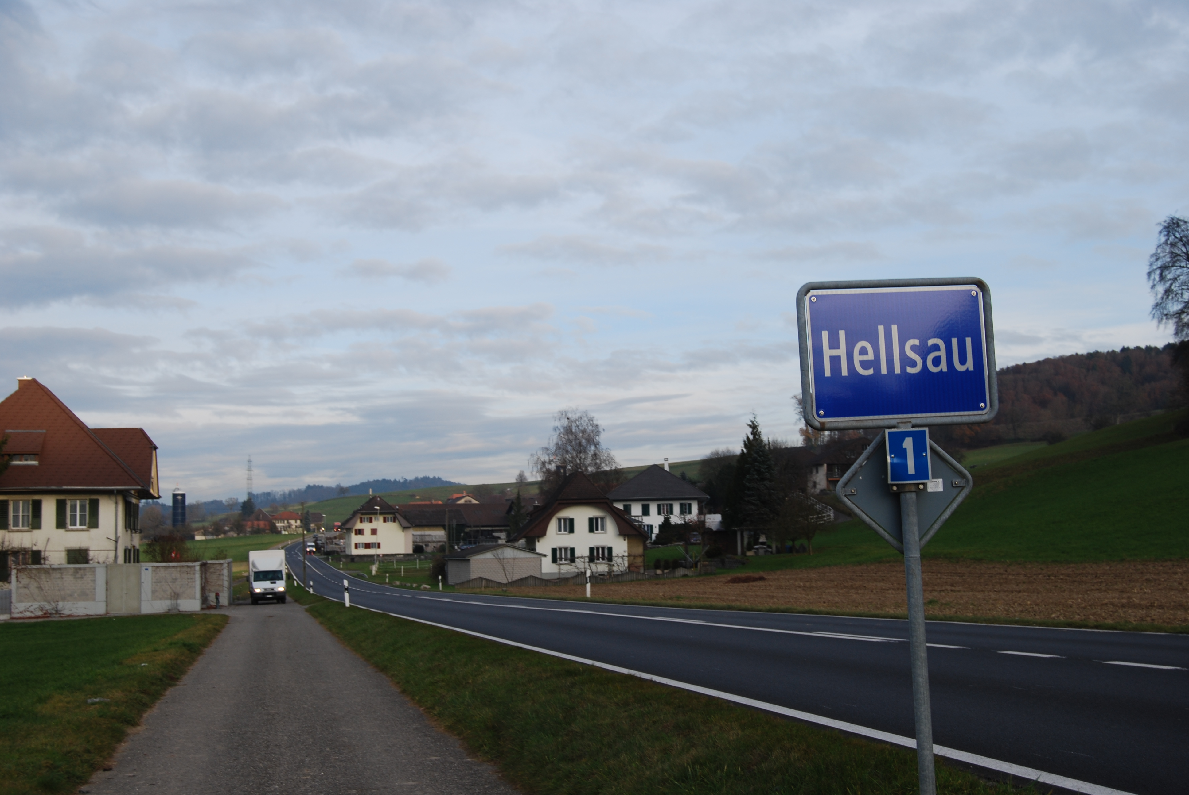 Hellsau, canton of Bern, SwitzerlandEsperanto: Hellsau, Kantono Berno, Svislando